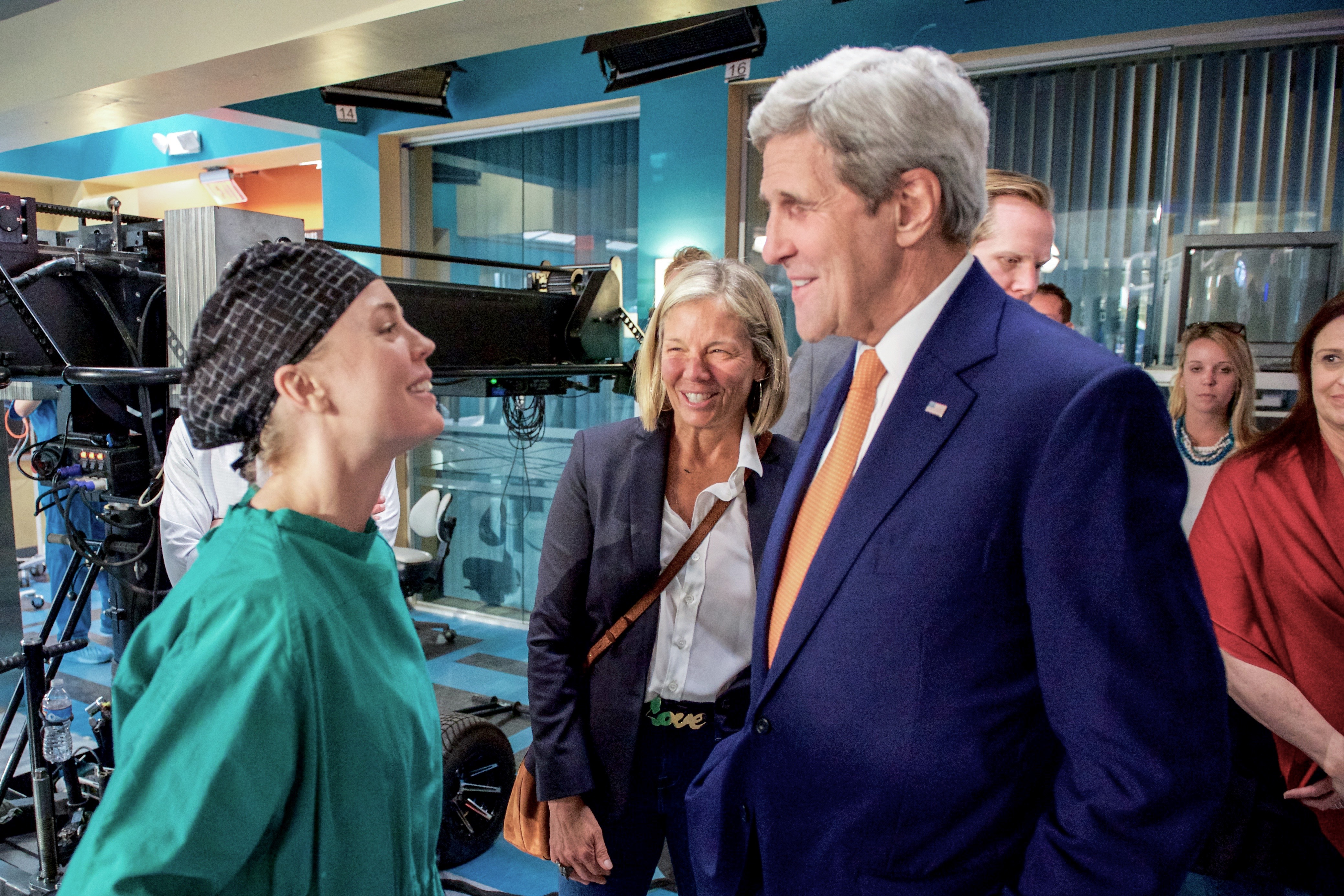 U.S. Secretary of State John Kerry, flanked by Executive Producer Kelly Chapman, meets Melissa George - the star of the new television series "Heartbeat" - while he visits the set on the Universal Studios lot in Burbank, California, on February 16, 2016, before meeting with a group of movie industry executives. [State Department photo/ Public Domain]